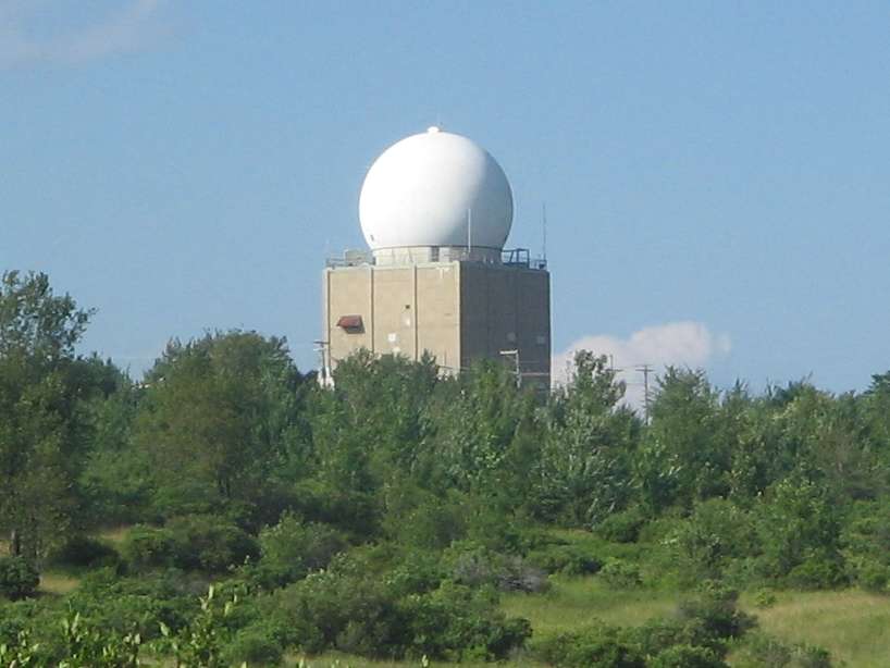 FAA Radar dome at Red Rocks Job Center north of Lake Jean in Ricketts Glen State Park, Fairmount Township, Luzerne County, Pennsylvania, USA. View from Hayfields parking lot.